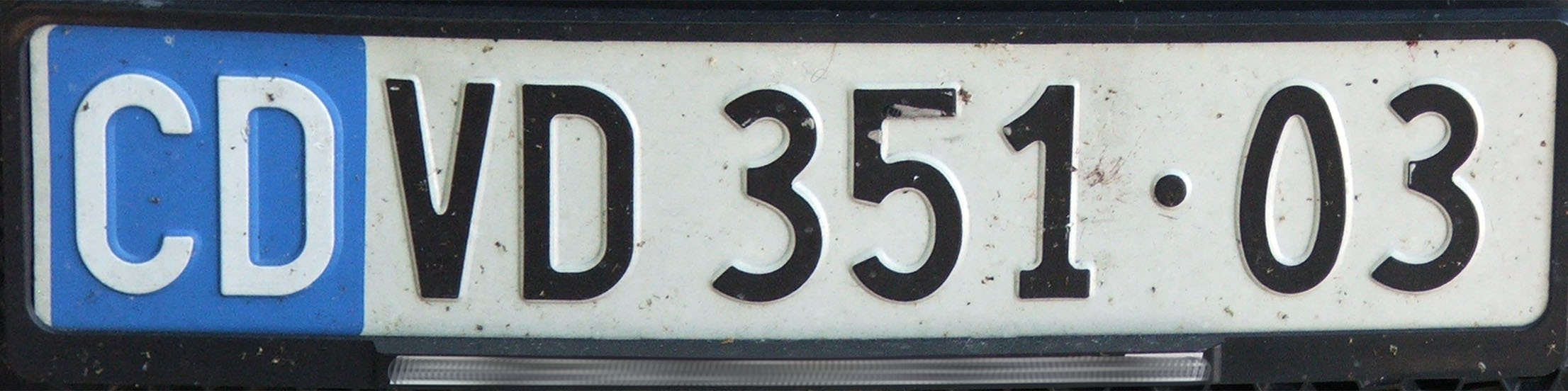 Diplomatic vehicle licence plate from Switzerland as seen in 2007. "VD" stands for Vaud canton. "03" stands for the World Health Organization. "01" would stand for United Nations, "02" for the International Labour Office, etc.